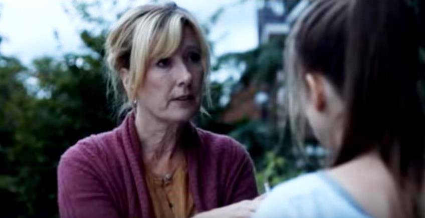 Dutch actress Ariane Schluter in the film "'De prijs van de waarheid (2015)